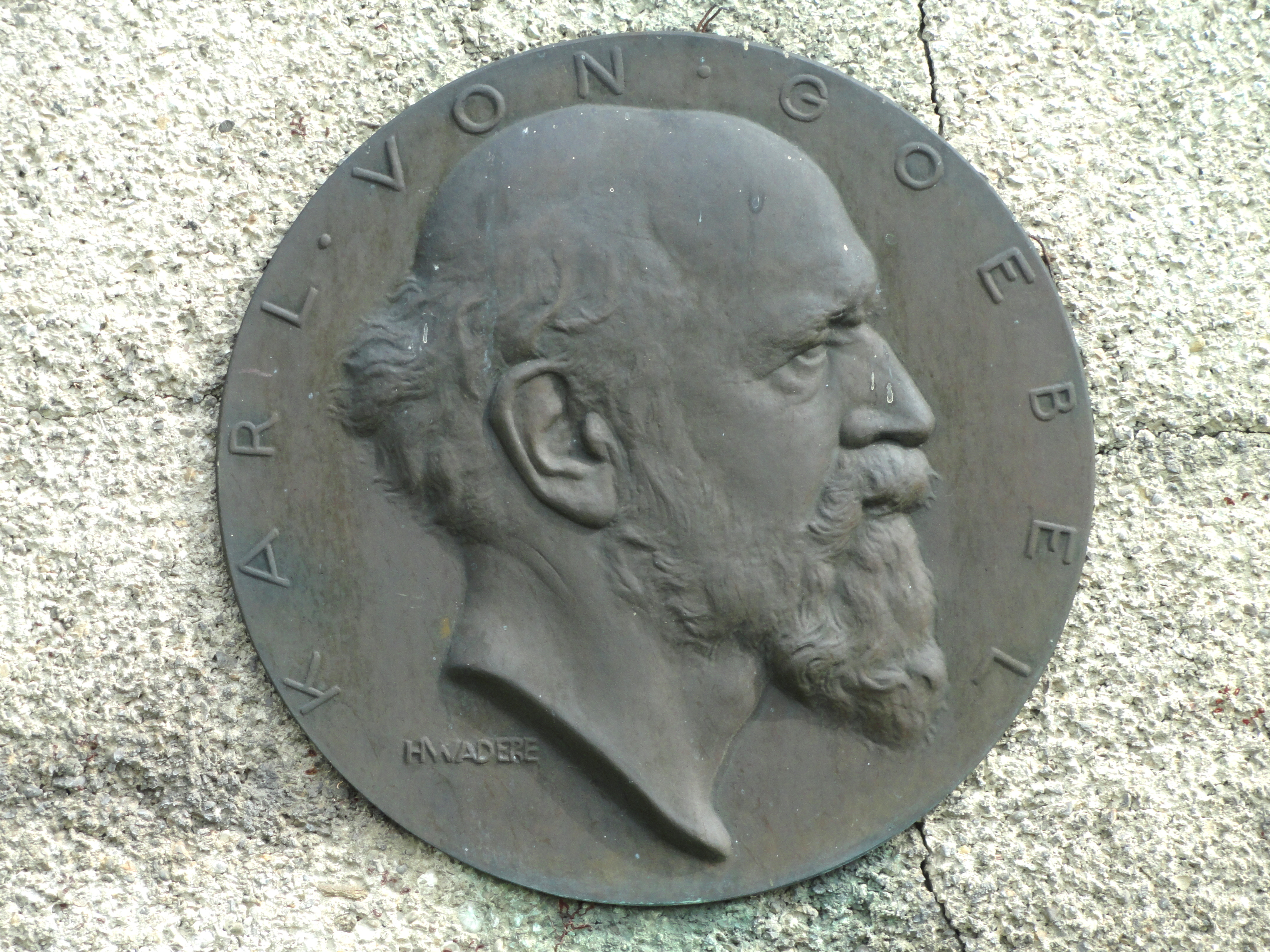 Karl von Goebel memorial, Botanischer Garten München-Nymphenburg, Munich, Germany.